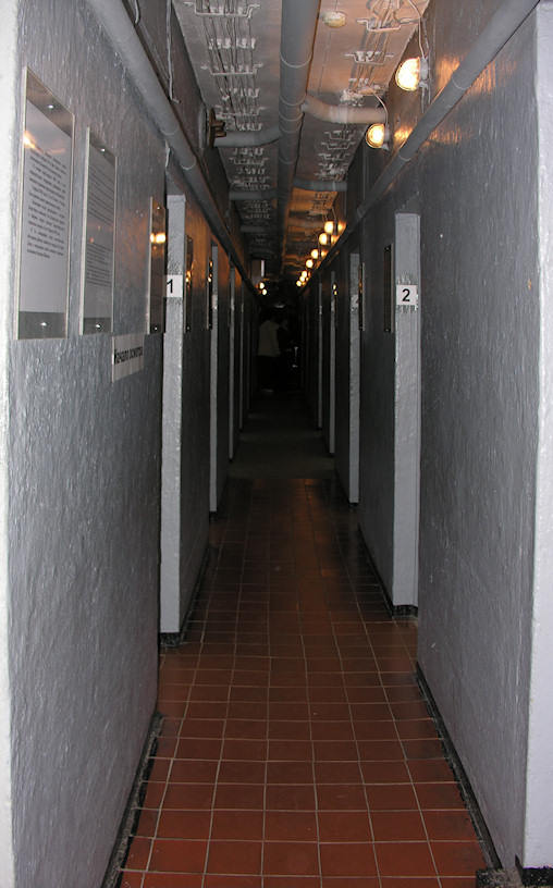 Otto Lasch bunker interior.